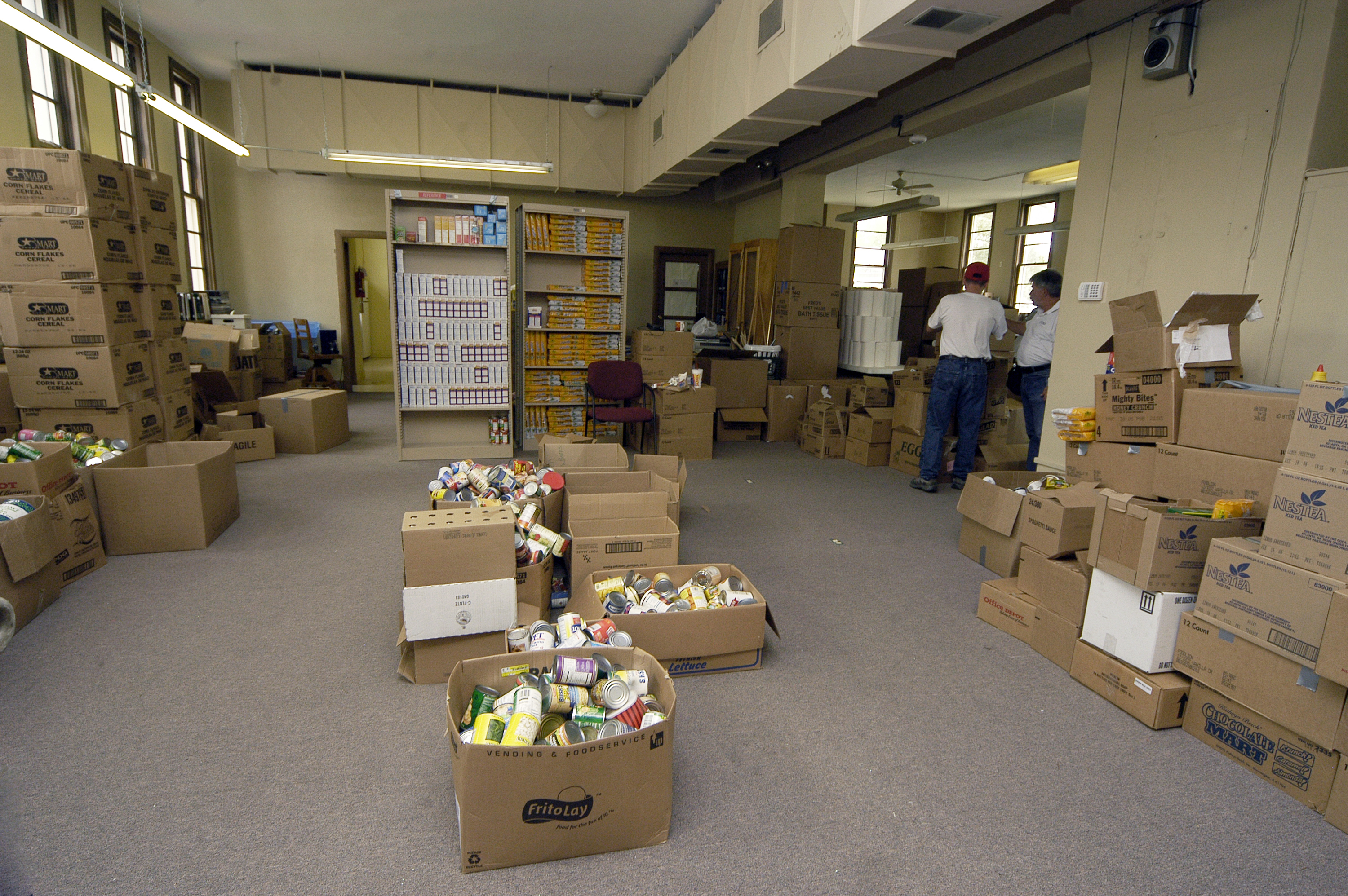 Caruthersville, MO, 4-15-06 -- This food bank holds donations of food and clothing given to the town of Caurthersville, MO. following a tornado that hit the town on April 2, 2006. Hundreds of people have been coming to the community center for food and supplies. Photo by Patsy Lynch/FEMA